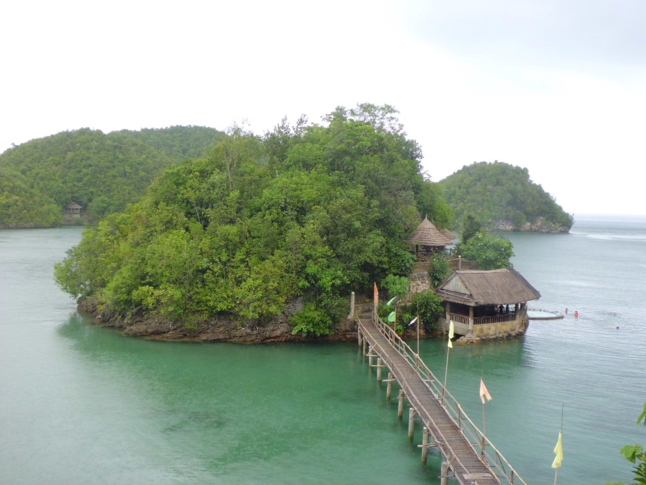 The Beauty of Sipalay Resorts